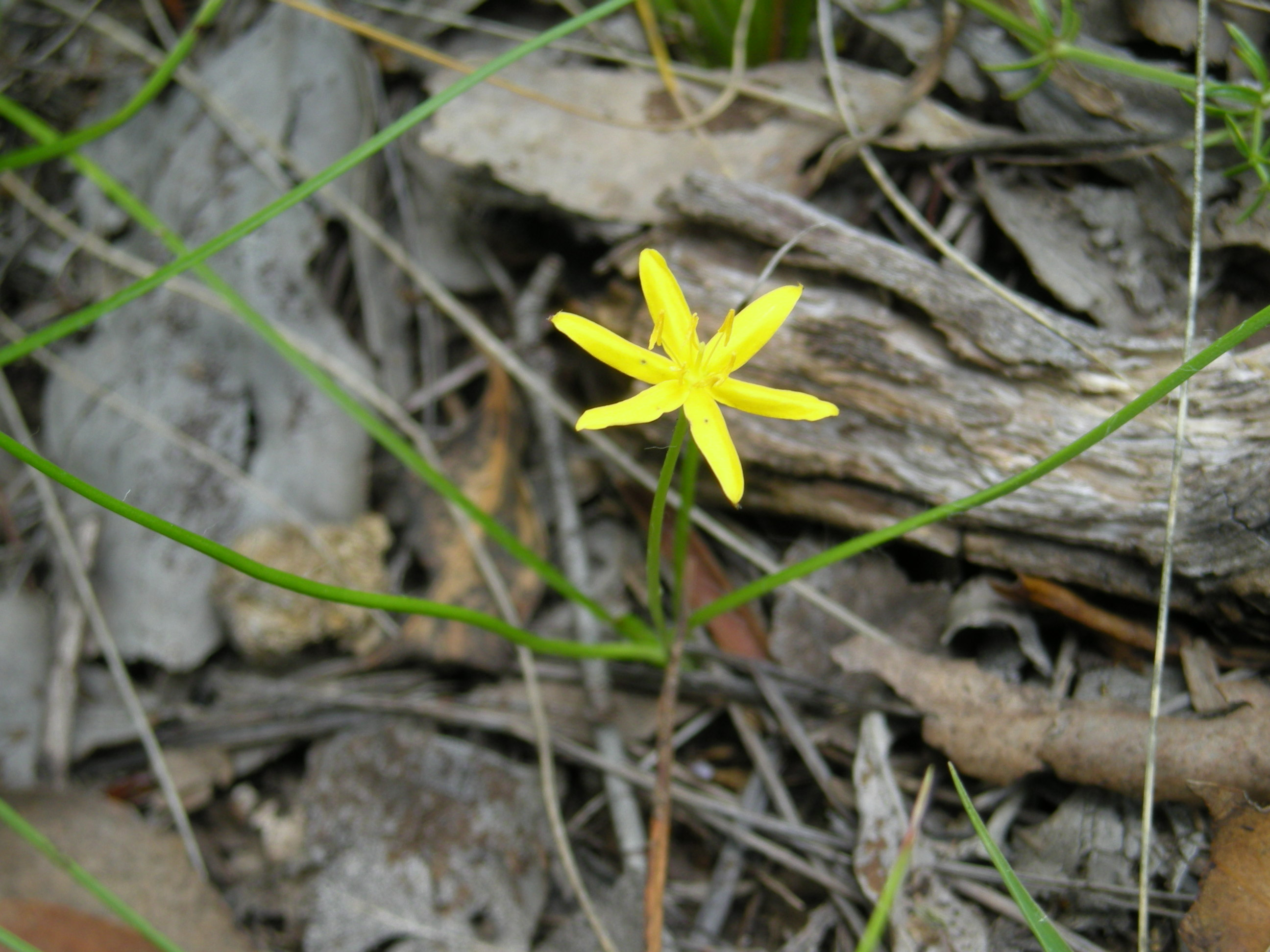 Flowerheads have 1-3 flowers; each 8-14 mm wide and with 6 golden yellow tepals. Flowering is from late spring to early autumn.